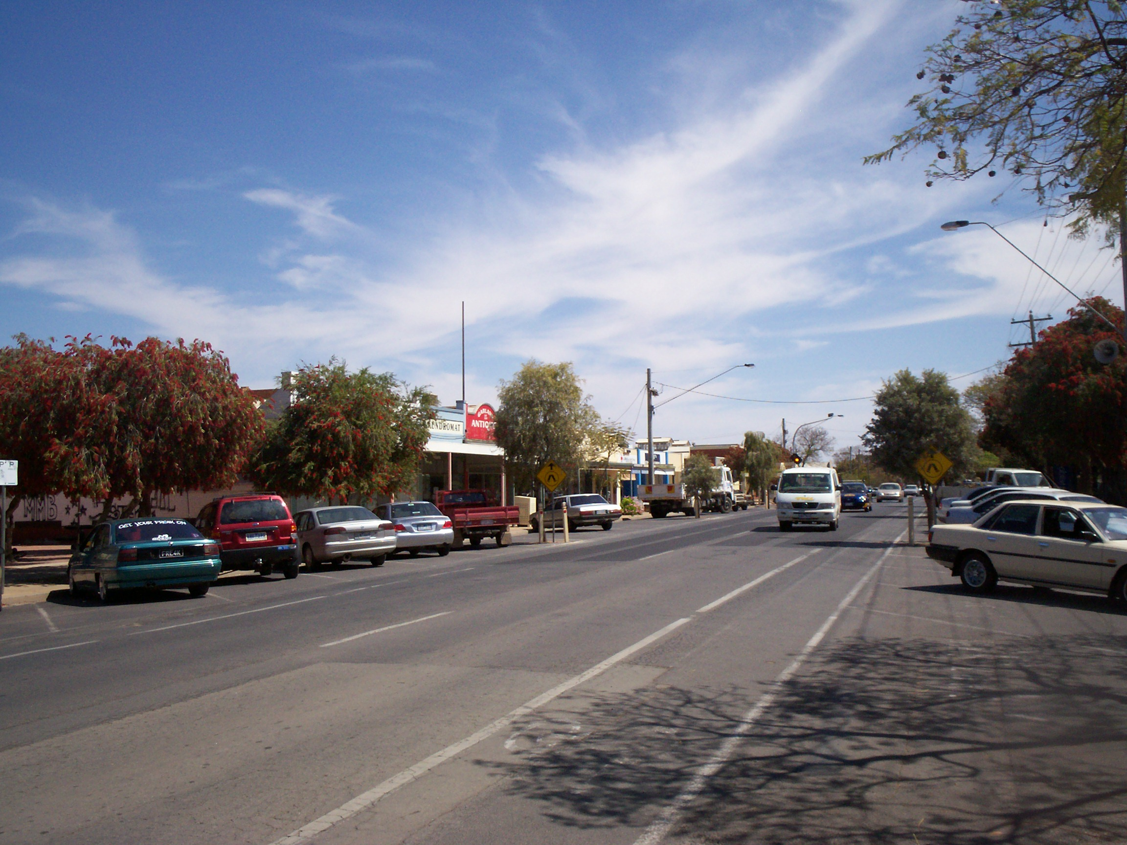 Merbein, Victoria